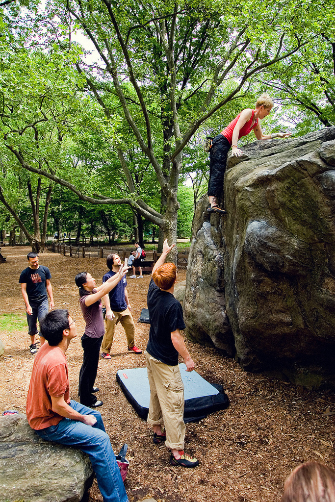 This photo is of Boulderers at Rat Rock in Central Park, NYC, New York, USA. One of the popular bouldering sites in Central Park.